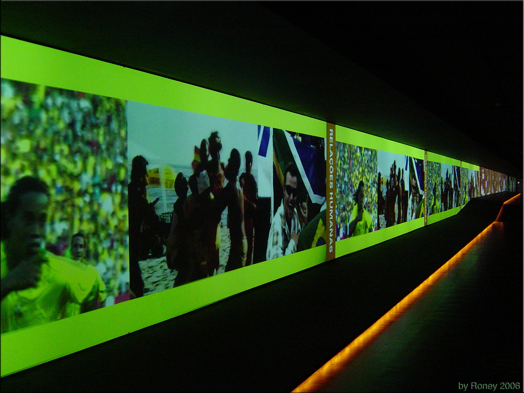 Museum of the Portuguese Language.